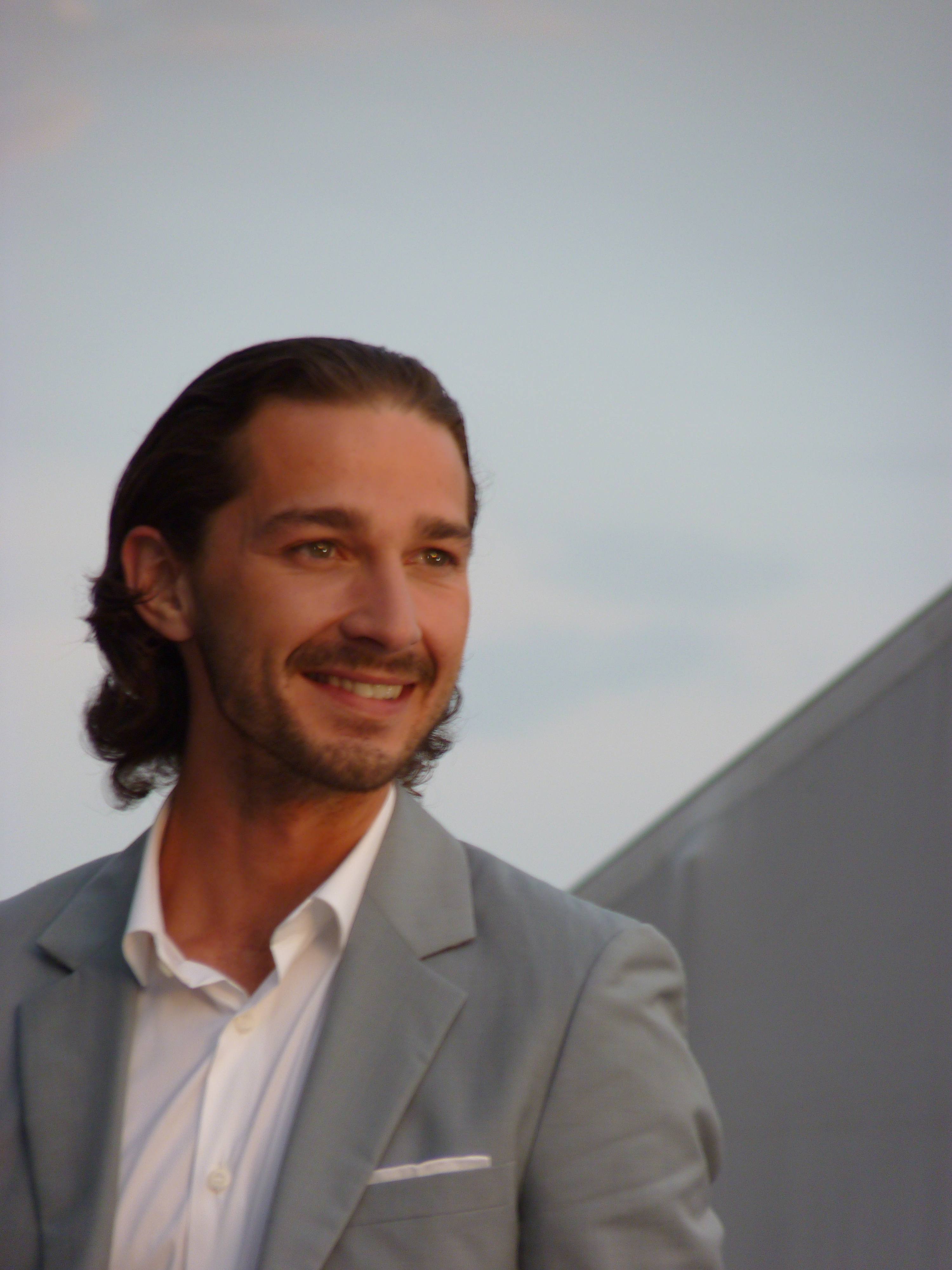 Shia LaBeouf at the 2012 Cannes Film Festival.